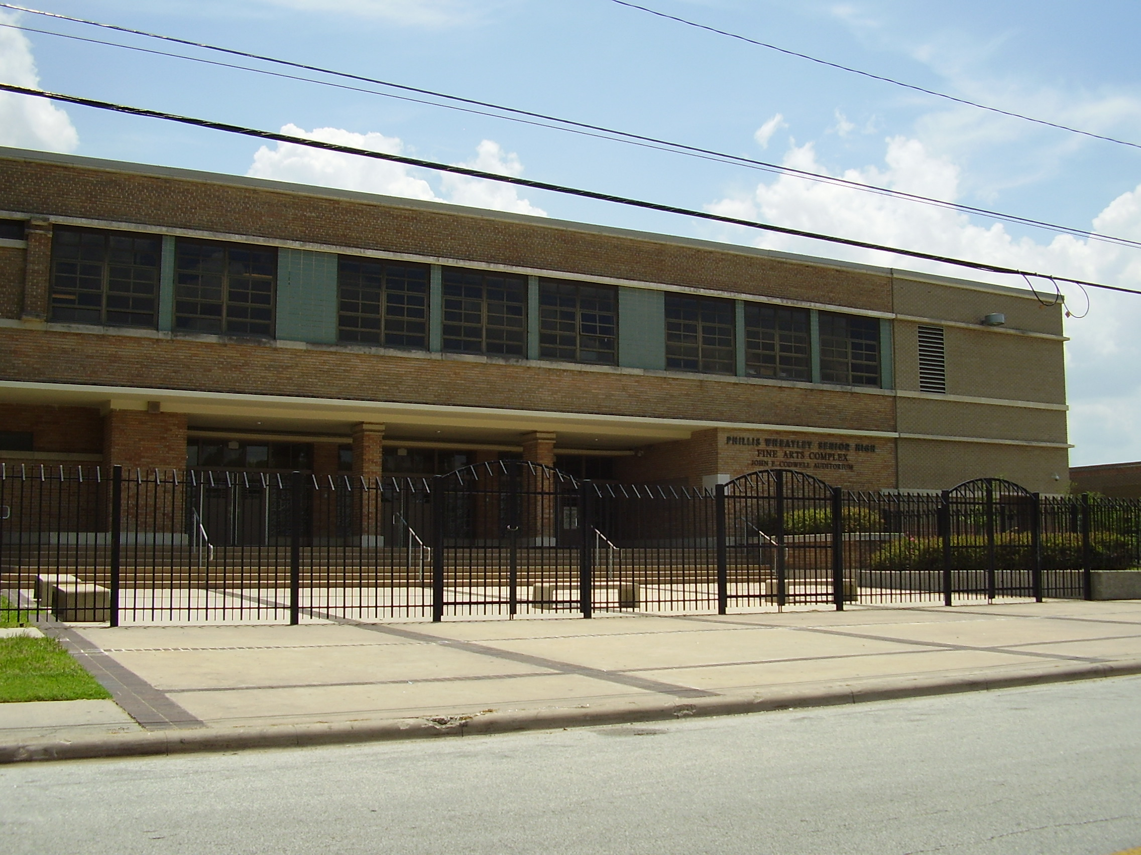 Phillis Wheatley High School Fine Arts Complex and John F. Codwell Auditorium